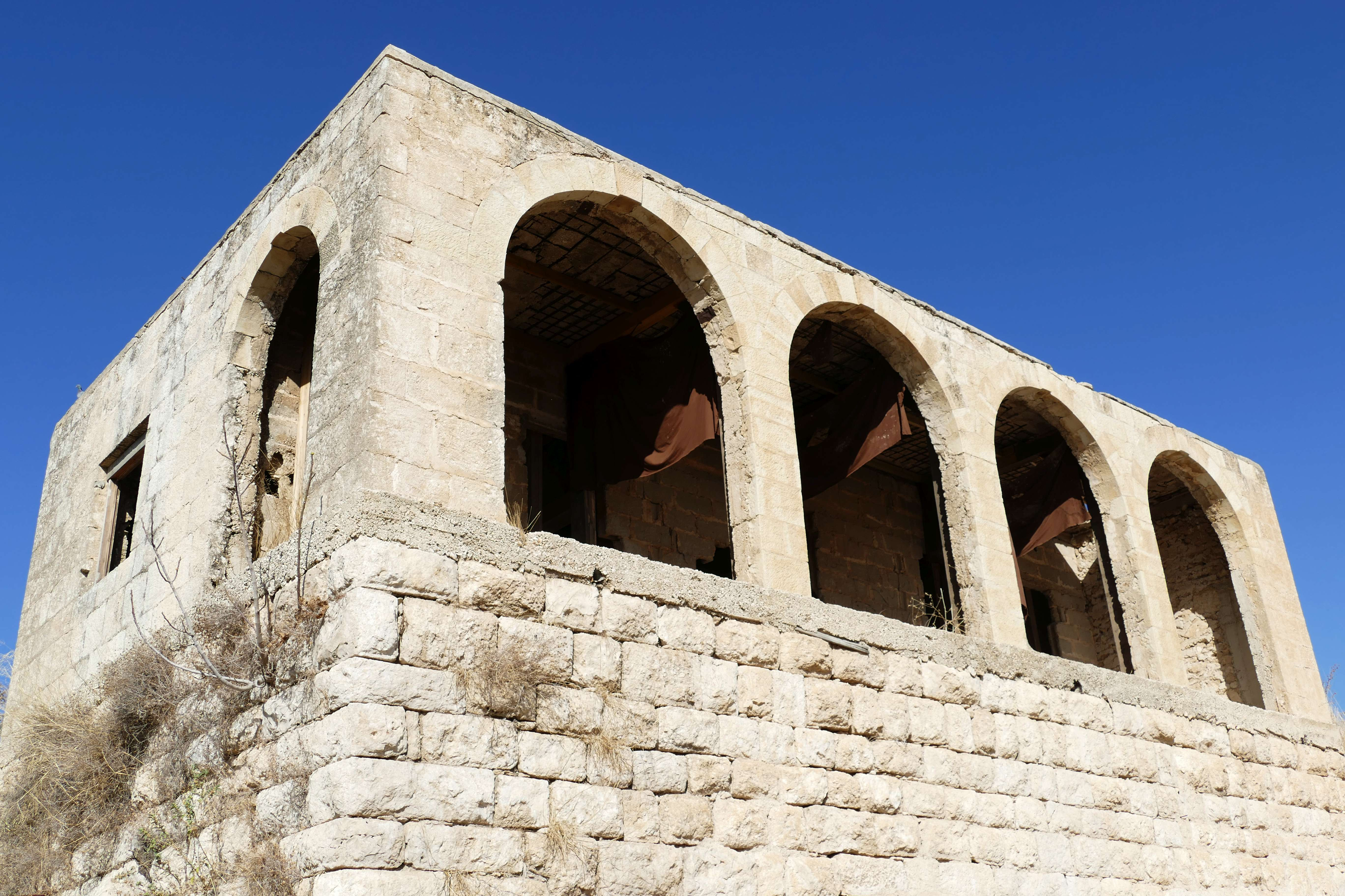 Beit ha-Kshatot (House of Arches), Harel, Israel.